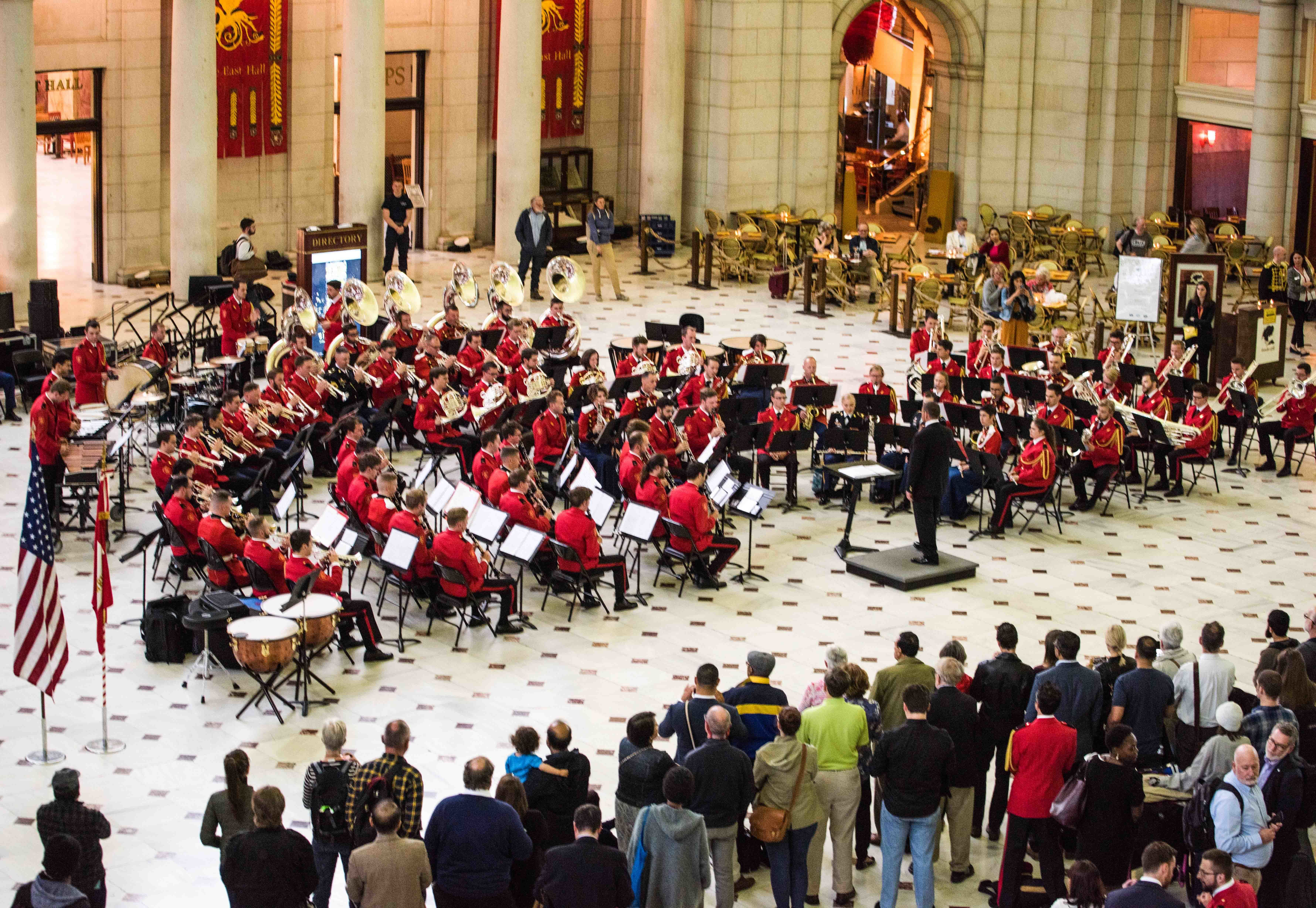 Soldiers with the 3d U.S. Infantry Regiment (The Old Guard) Fife and Drum Corps perform with the Swiss Army Central Band and the United States Marine Band "President's Own" at Union Station, Washington D.C. April 29, 2019. It was a rare occasion for all three bands to come together and perform for a smaller audience. (U.S. Army photos by Sgt. Jacob Holmes)